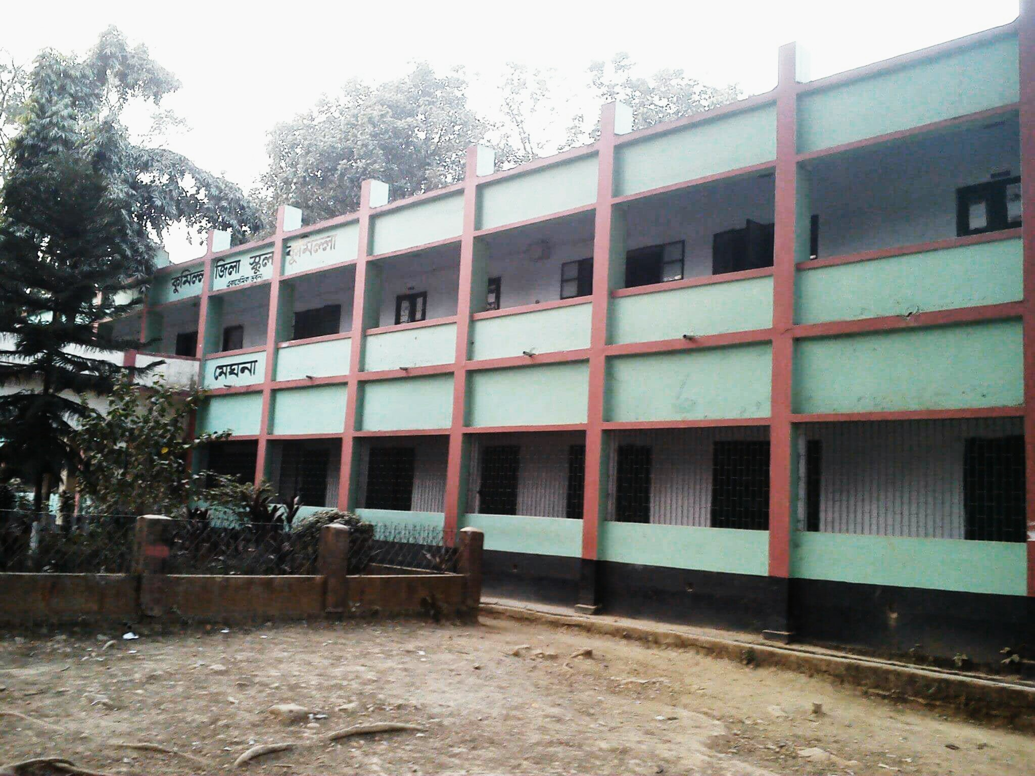 Meghna building (মেঘনা ভবন)